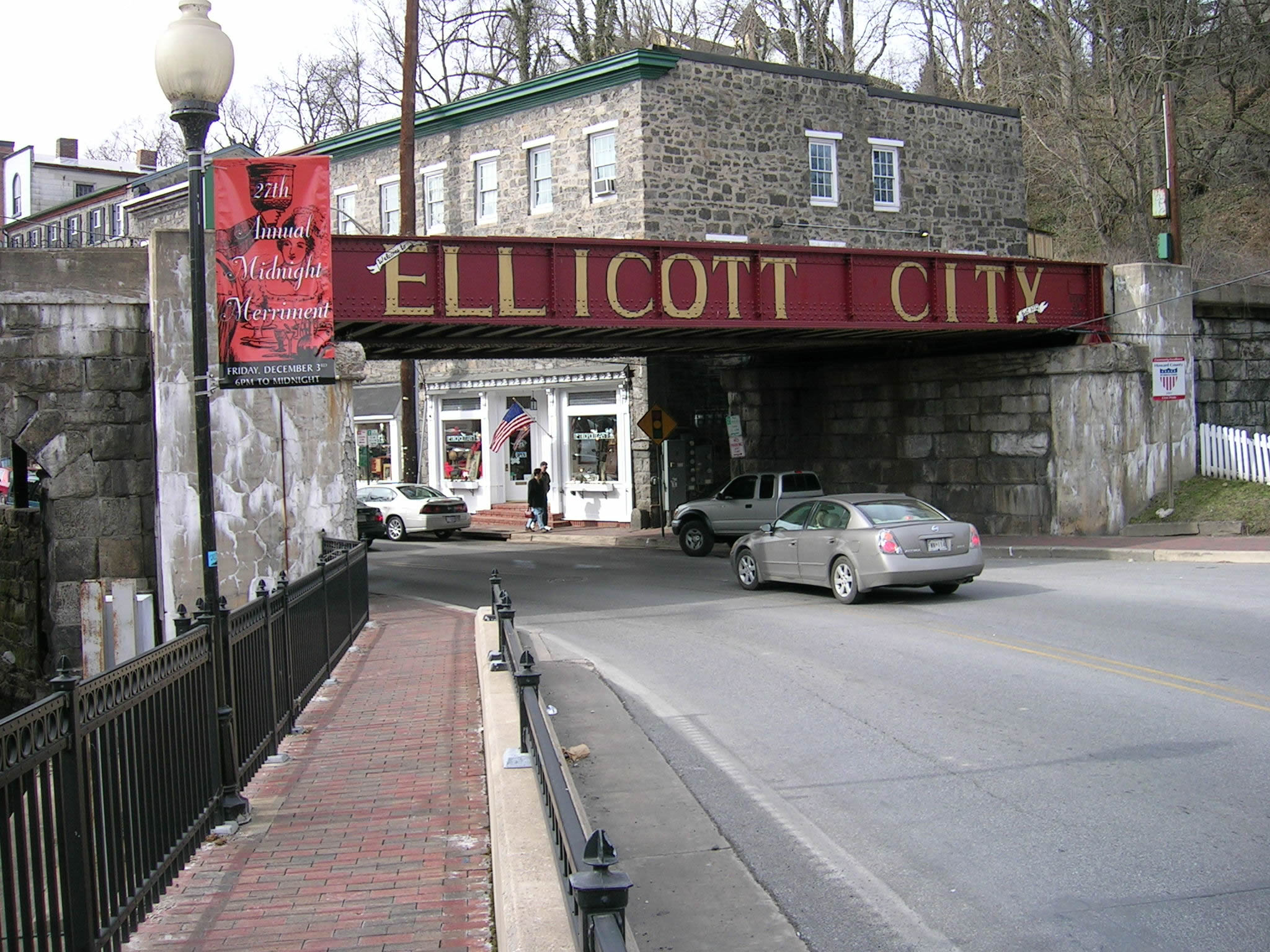 Railroad bridge in Ellicott City, Maryland on CSX Old Main Line Subdivision.railroad bridge at entrance to ellicot city